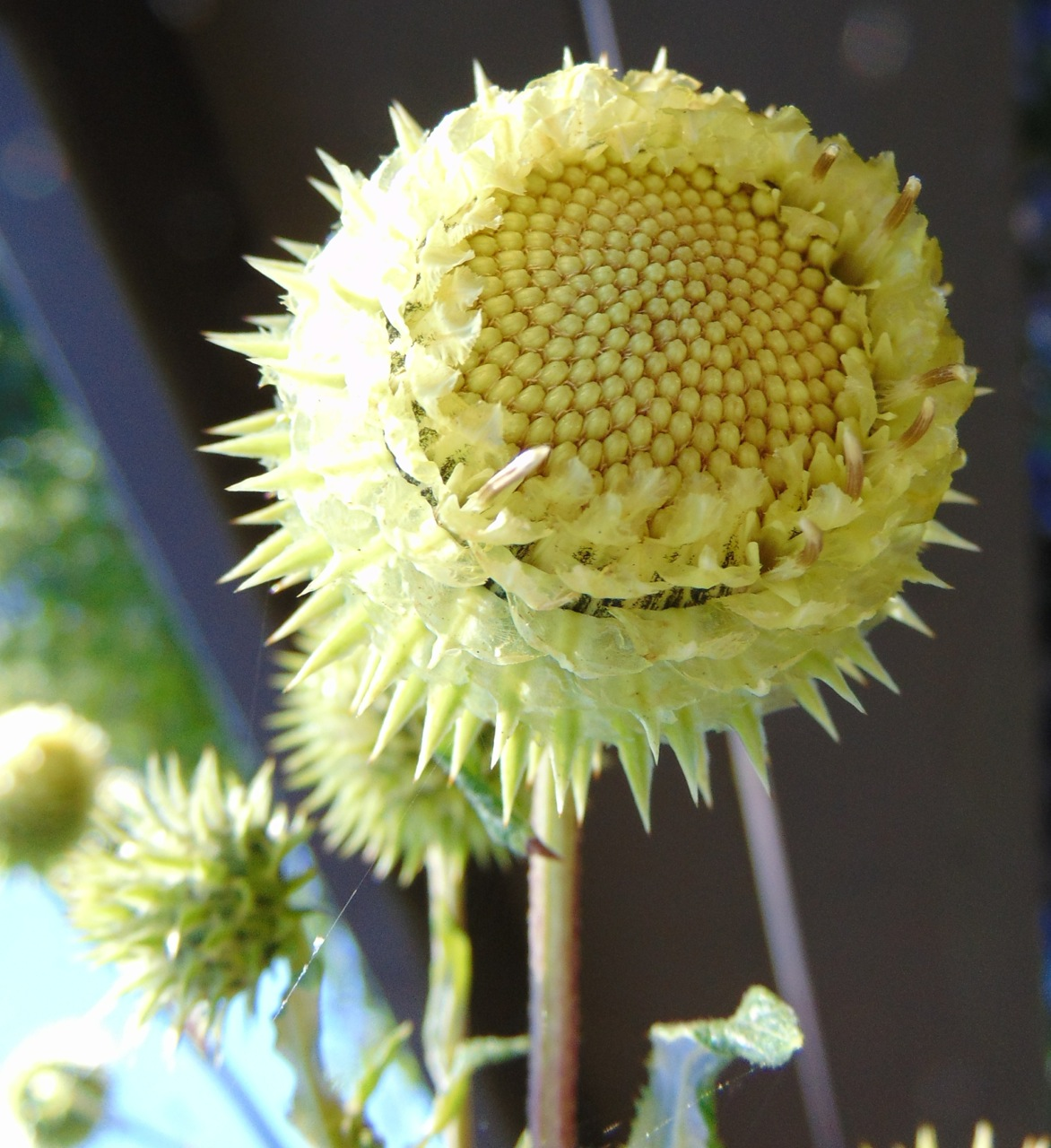 Alfredia cernua, Devonian Botanic Garden